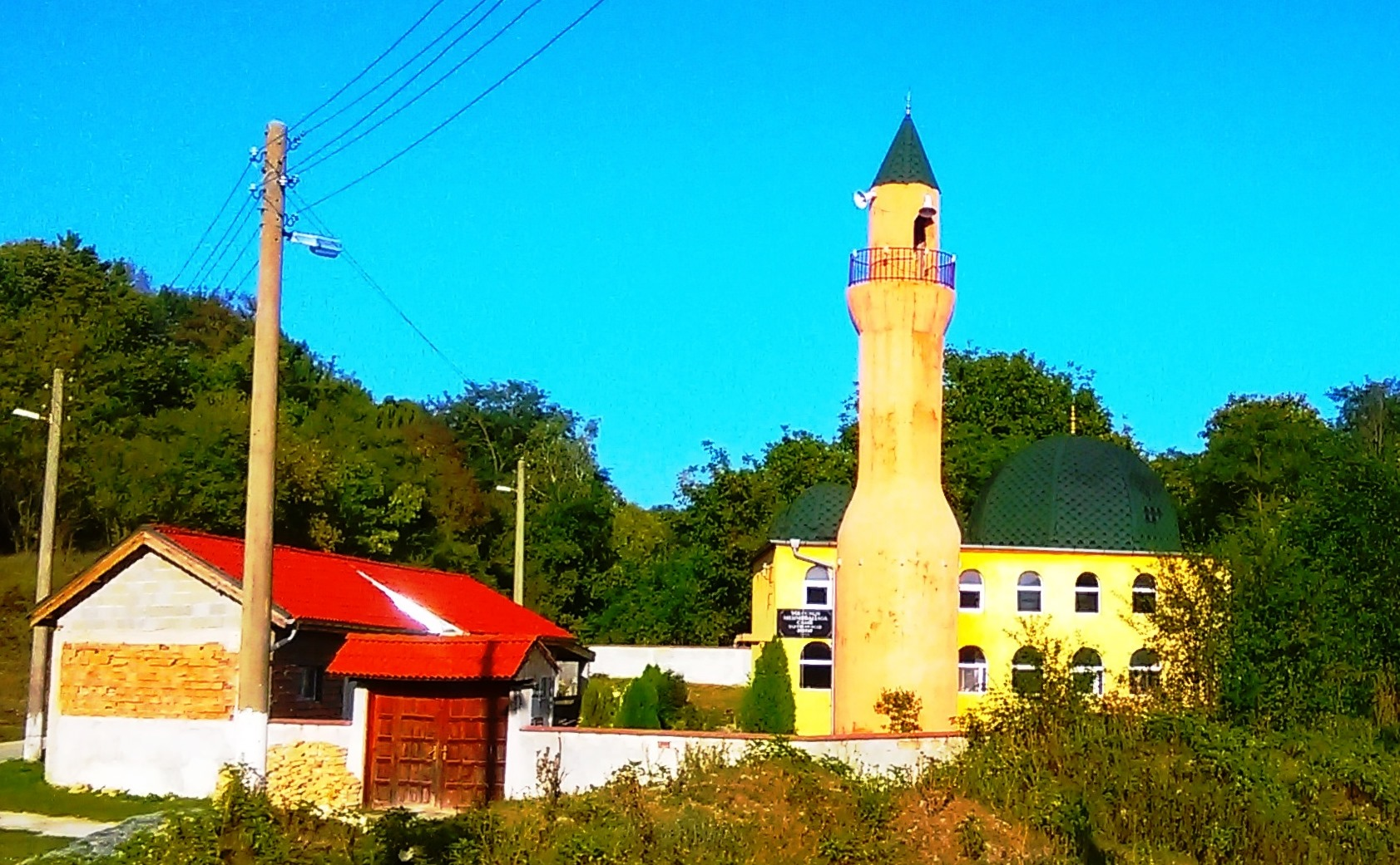 A mosque in Razvigorovo, Shumen province